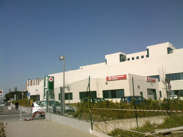 San Giuseppe Hospital (Empoli)